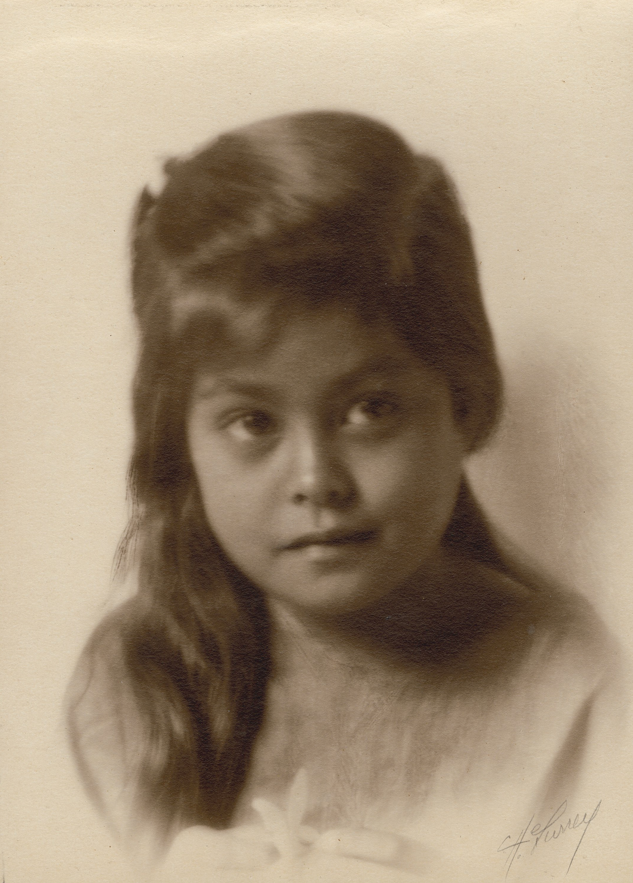 Young Hawaiian Girl. 10 x 7 1/4 – inch toned gelatin silver print, 1909, signed in pencil on lower right. The print is dry mounted to a board.